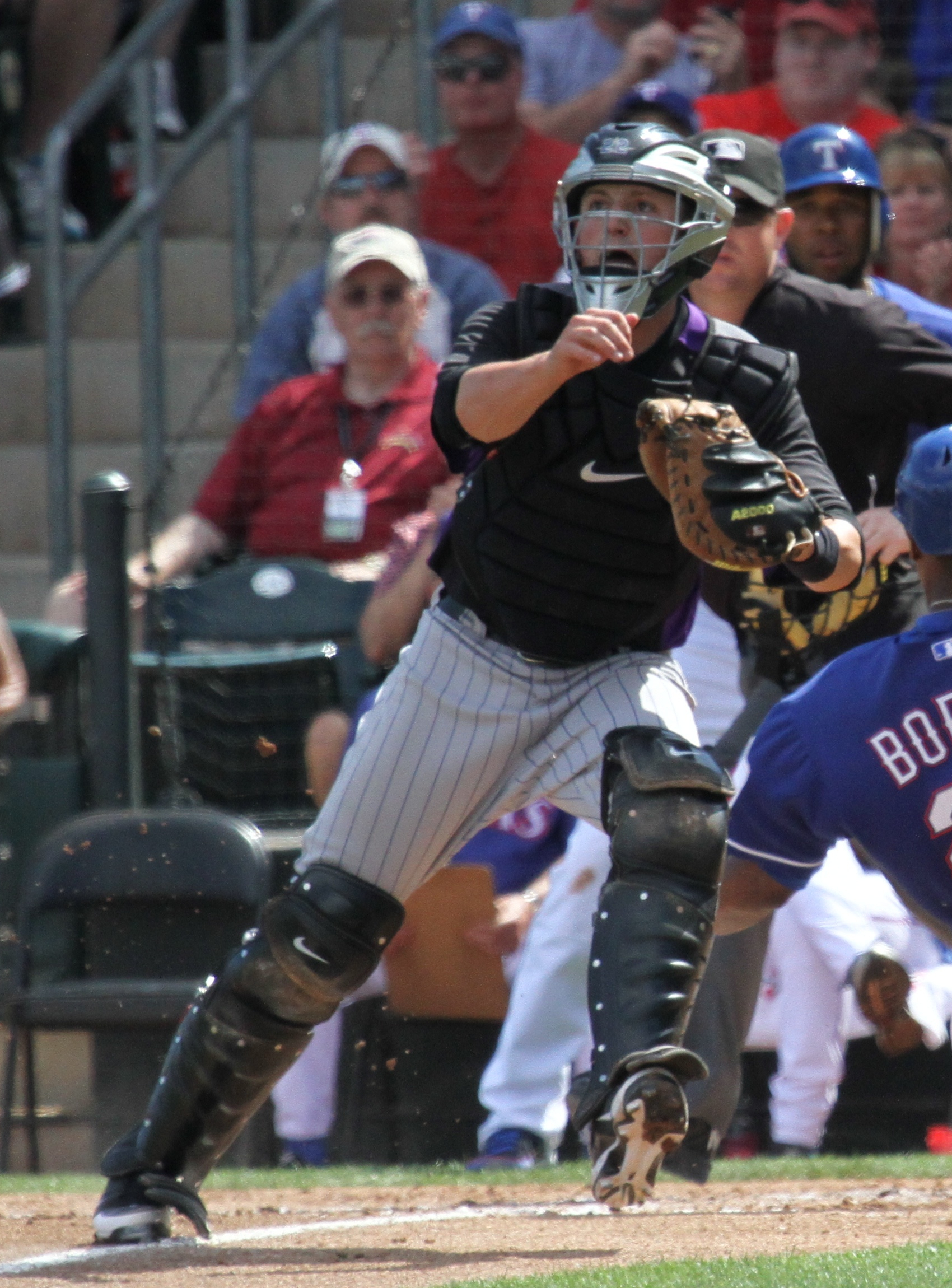 Jordan Pacheco